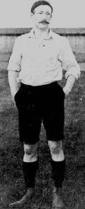 Willem Hesselink, first coach of FC Bayern Munchen